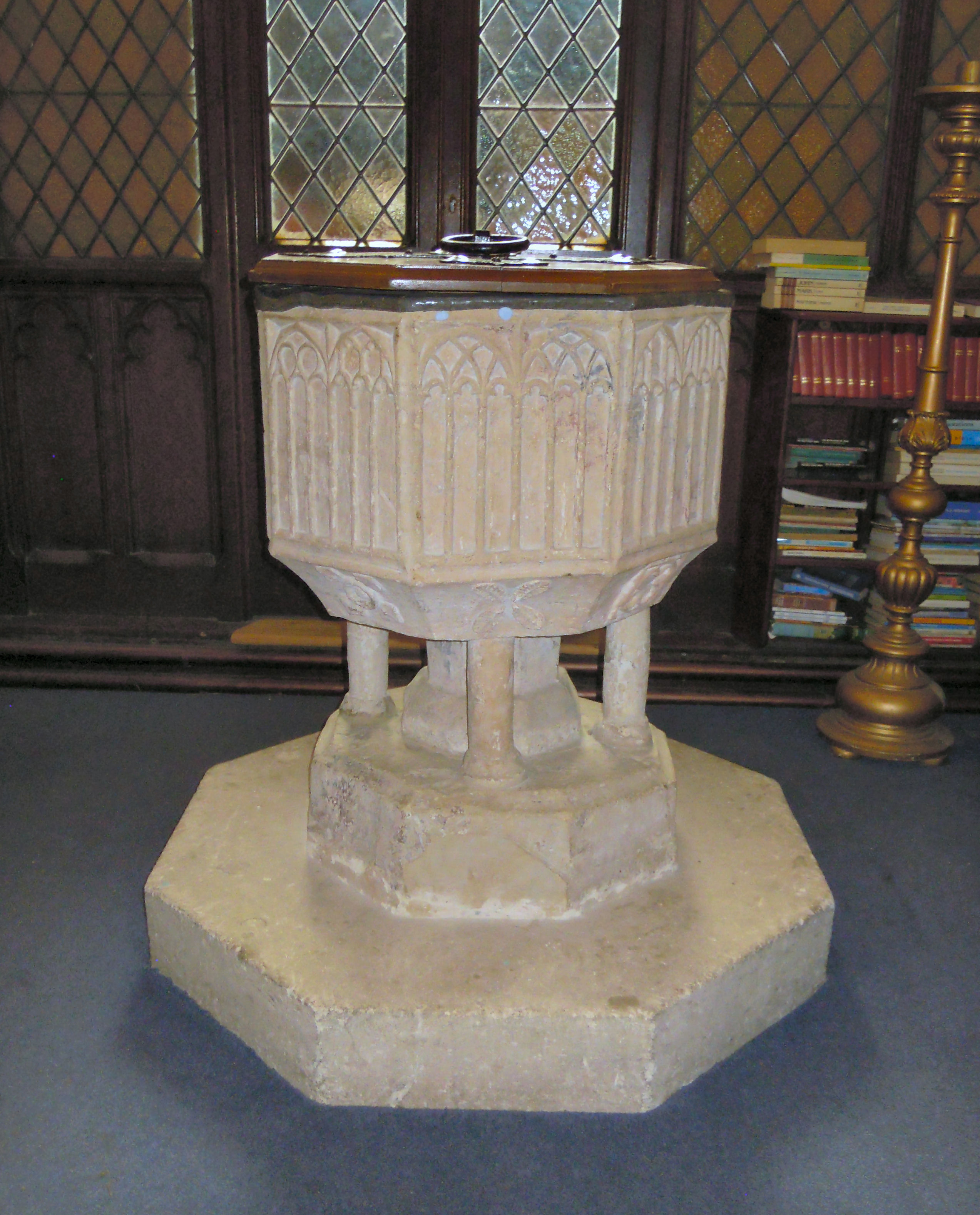 The baptismal font in Church of St Peter ad Vincula in Combe Martin in North Devon